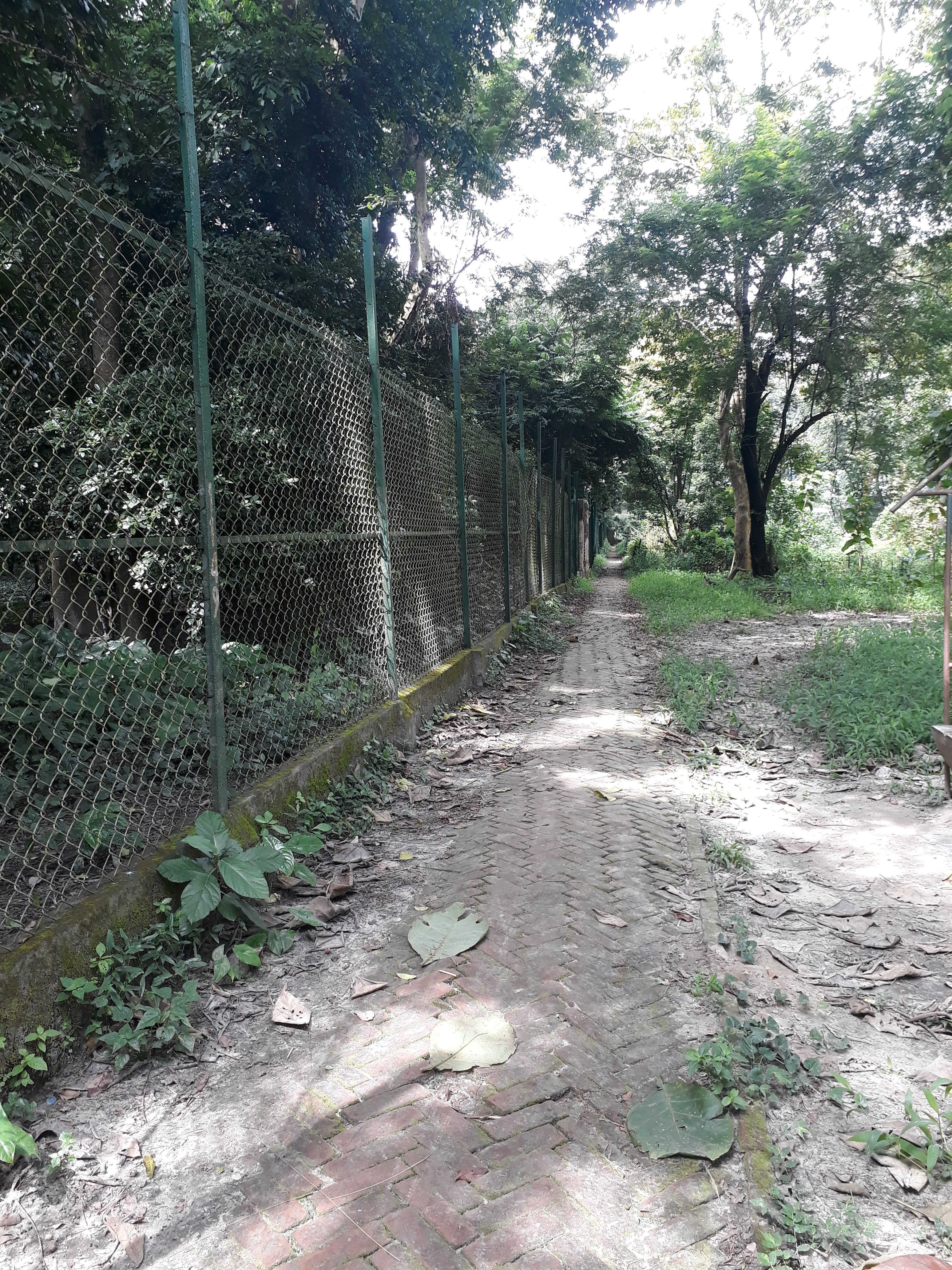 Parmadan forest or Bibhutibhusan wildlife sanctuary at North 24 Parganas, West Bengal